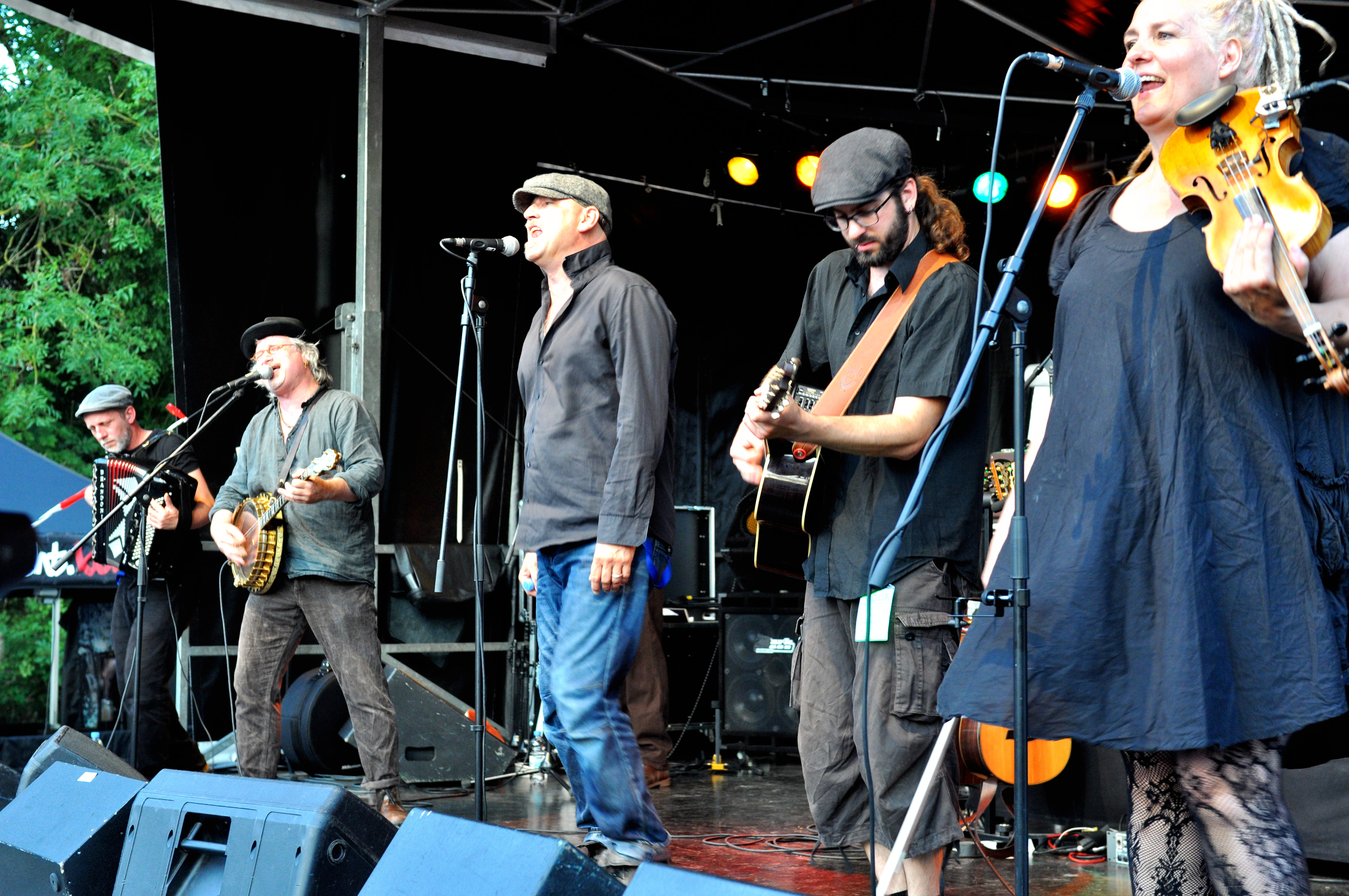 BalticSeaChild (DEU), Folk am Neckar 2015, Mosbach-Neckarelz, Germany Festivalsommer This photo was created with the support of donations to Wikimedia Deutschland in the context of the CPB project "Festival Summer".